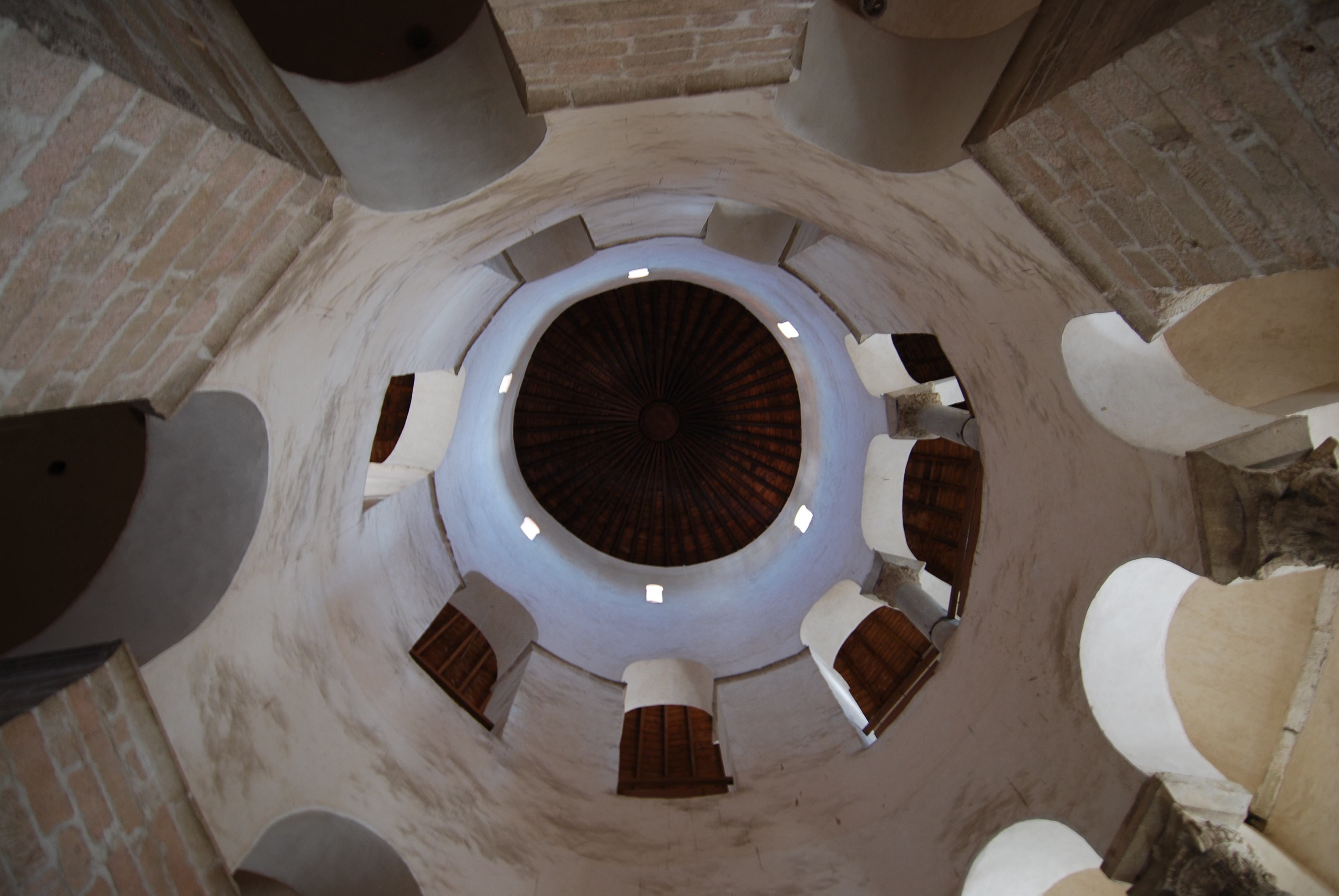 Inside of the St. Donatus' Church, Zadar